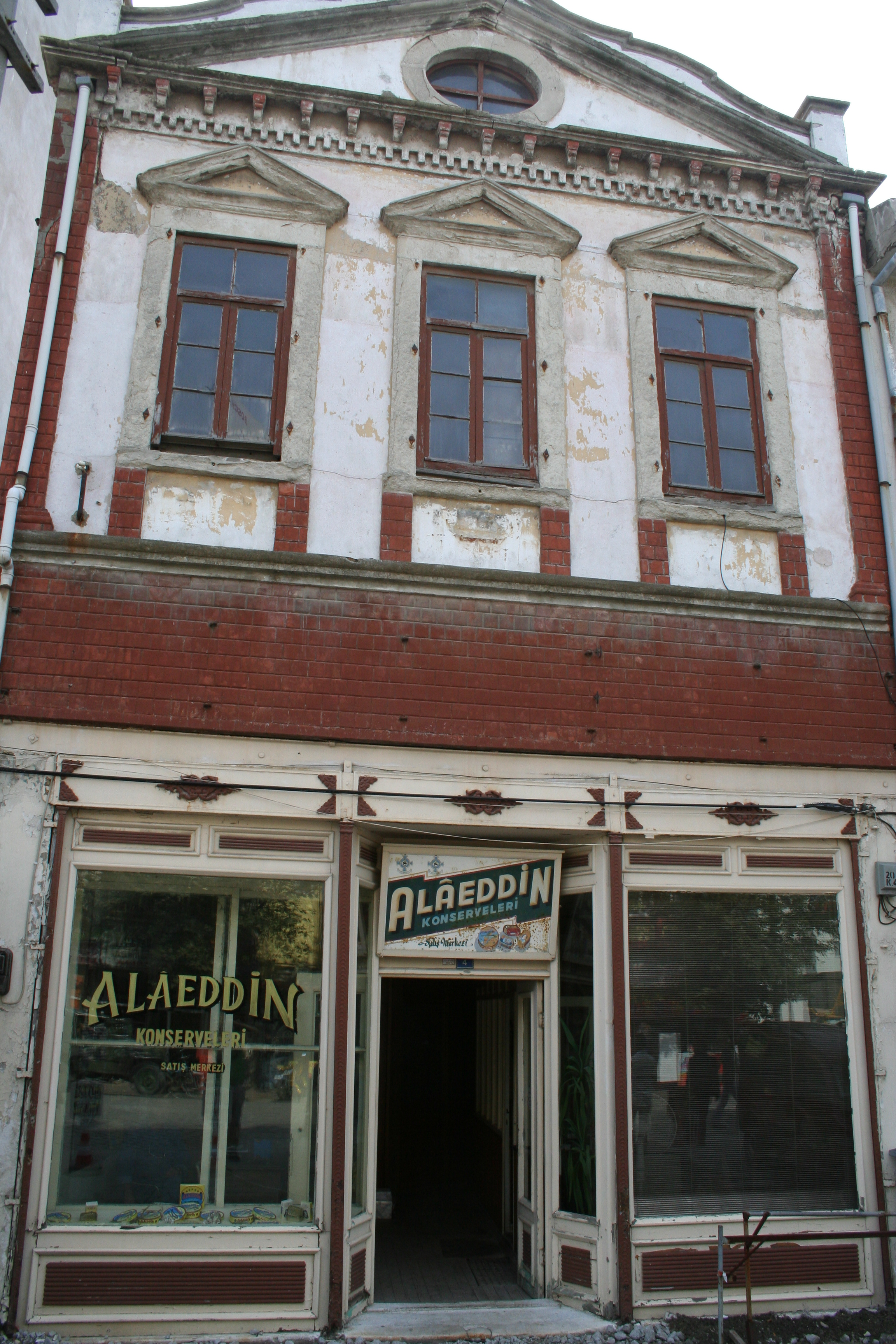 Alâeddin canned fish shop, Gelibolu, Turkey